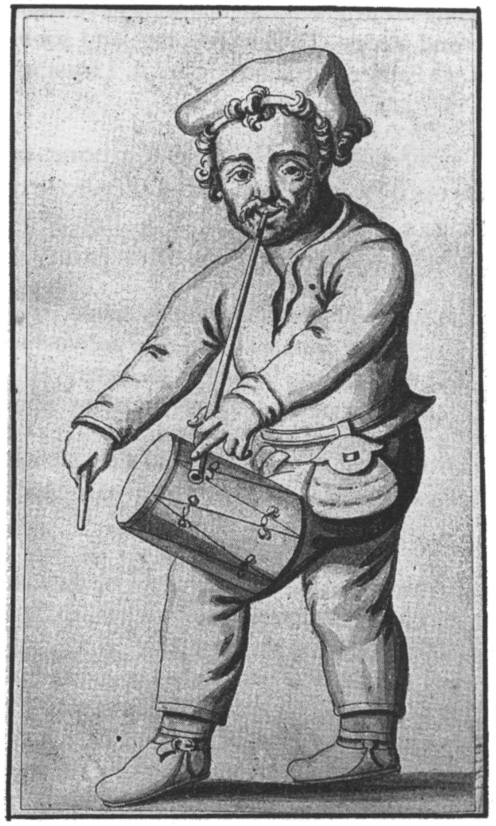 Image of English Elizabethan clown Richard Tarlton in rustic apparel with pipe and tabor